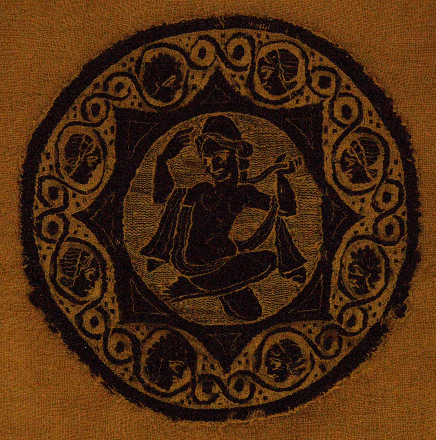 Crouching Aphrodite. Flax and wool embroidery. Coptic Egypt, 3–4th century.